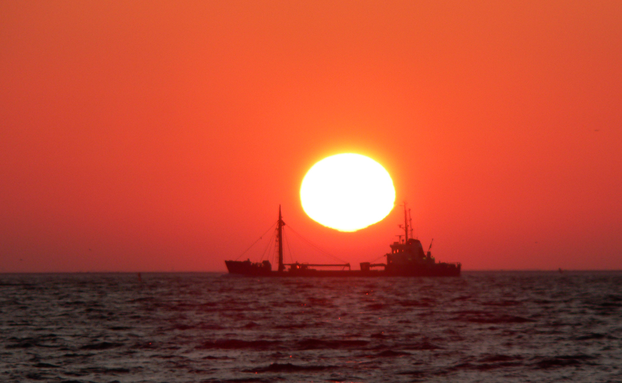 Sunrise on sea at Copenhagen, Denmark.